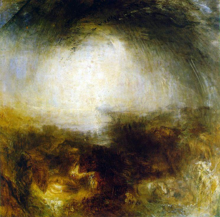 Shade and Darkness - the Evening of the Deluge